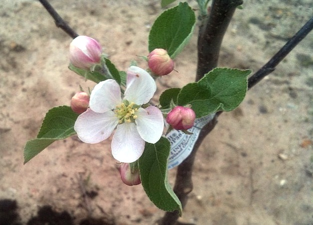 GoldRush Apple flower